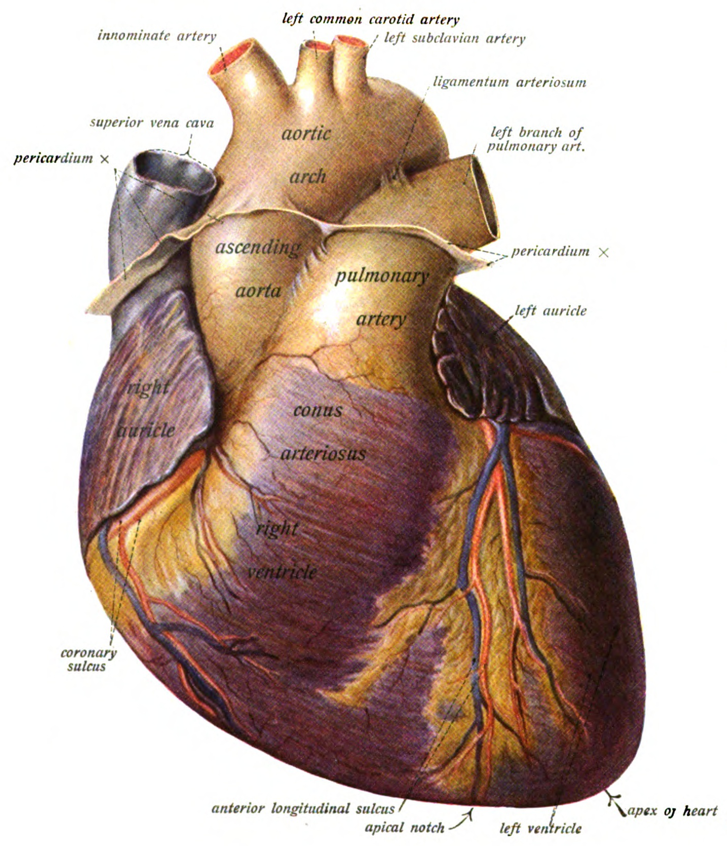 An anatomical illustration from the 1906 edition of Sobotta's Atlas and Text-book of Human Anatomy with English Terminology